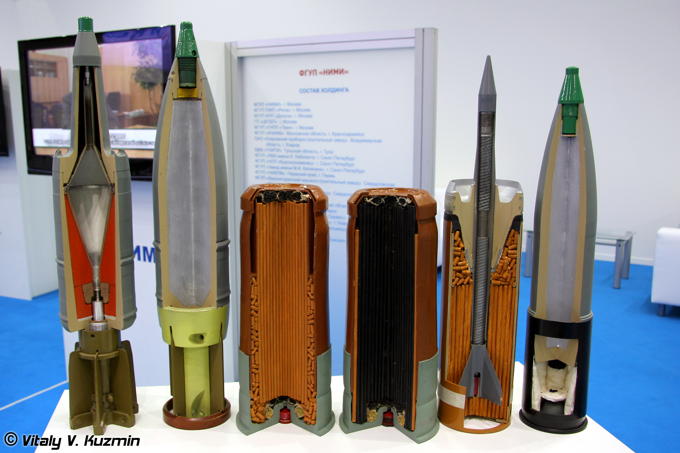 Снаряды БК18М, ОФ26, заряды Ж40 и Ж63, далее снаряды БМ44 и ОФ32 (From left to right BK18M and OF26 shells, Zh40 and Zh63 charges for shells, BM44 and OF32 shells)